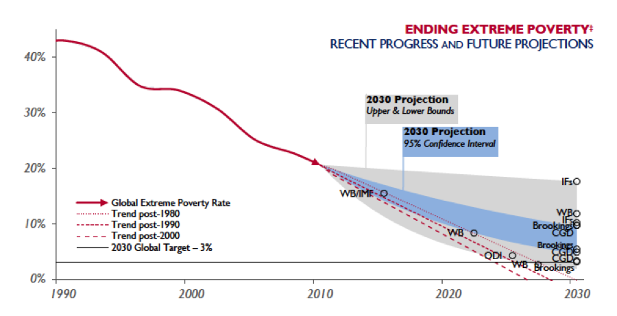 Chart created by USAID about the range of poverty projections over the next 20 years